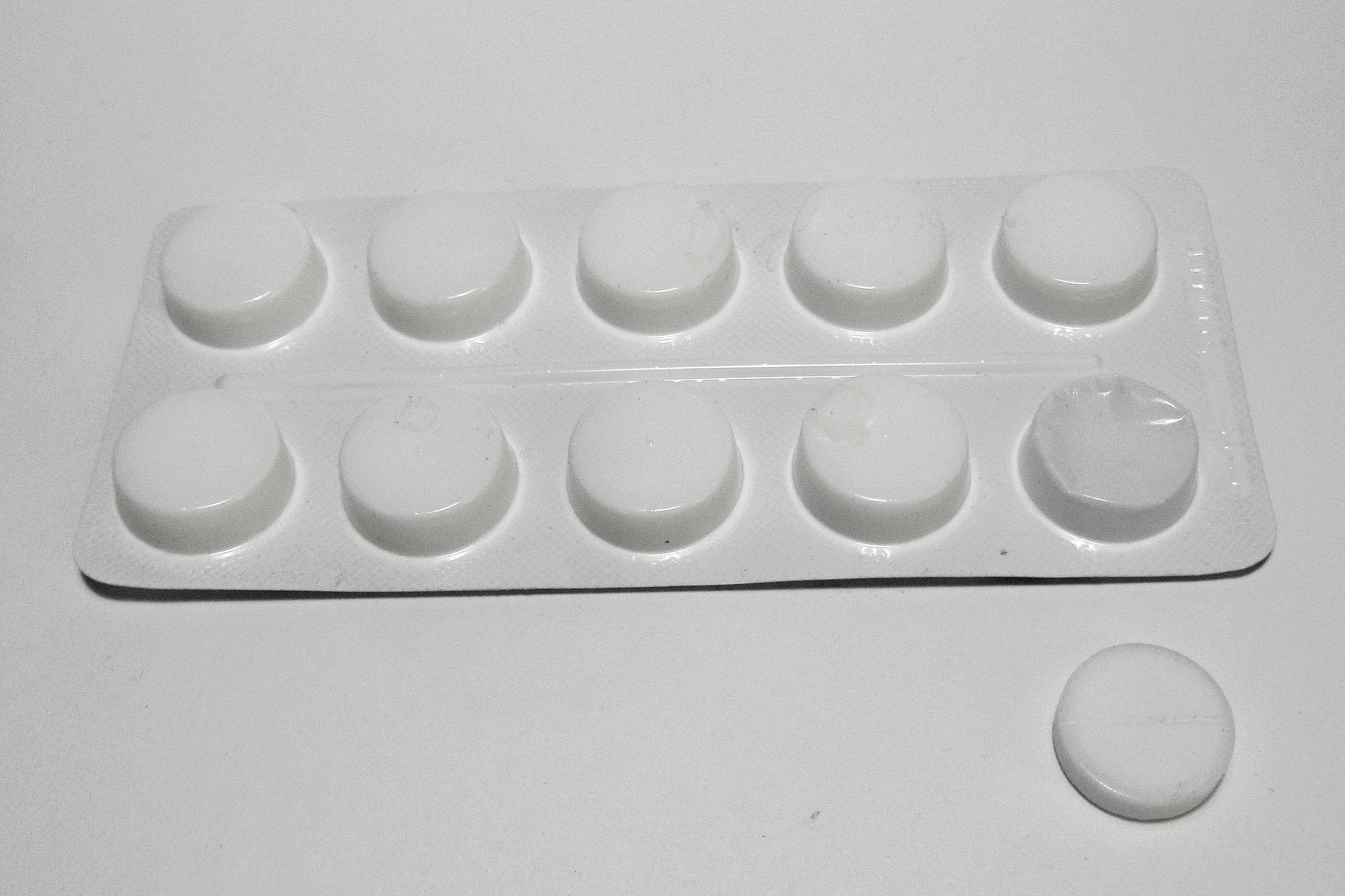 Menthyl isovalerate, also known as validolum, is the menthyl ester of isovaleric acid. It is a transparent oily, colorless liquid with a smell of menthol. It is very slightly soluble in ethanol, while practically insoluble in water. It is used as a food additive for flavor and fragrance.